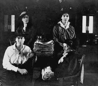 Presentation of petition by Political Equality League for enfranchisement of women, Winnipeg, Canada, 23 December 1915. Mary Elizabeth Crawford, its secretary, Lillian Kate Beynon Thomas, and the oldest signatory of the petition, Amelia Burrell, Winona Flett